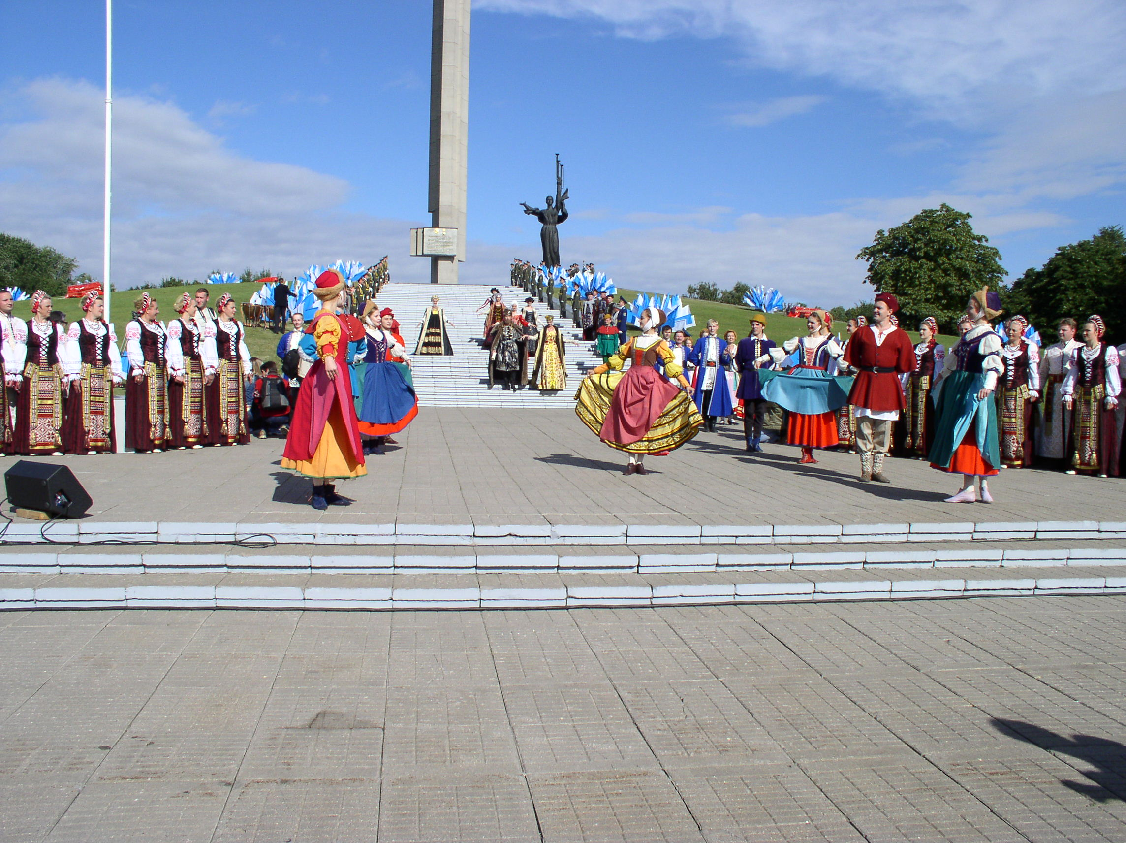 Celebration of 940 anniversary of Minsk near "Minsk — Hero-City" monument. Minsk, Belarus.